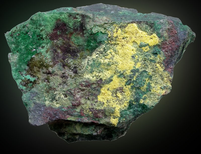 Demesmaekerite, Guilleminite, Digenite Locality: Musonoi Mine, Kolwezi, Western area, Katanga Copper Crescent, Katanga (Shaba), Democratic Republic of Congo (Zaïre) (Locality at ) Size: 4.1 x 3.1 x 2.4 cm. An interesting combination specimen hosting two very rare selenites, Demesmaekerite and yellow Guilleminite. The Guilleminite is micro crystalline but the Demesmaekerite is present in well formed crystals: Some are free standing and reaching 1 mm. The combination is almost unheard of. The matrix is composed of Malachite and Selenium-rich Digenite. This mineral is the source of the selenites in Musonoi. This specimen was recovered during the removal of the U-dump in the early 1990’s. Musonoi has ceased producing minerals since then. Note that Musonoi is the type locality for both species.